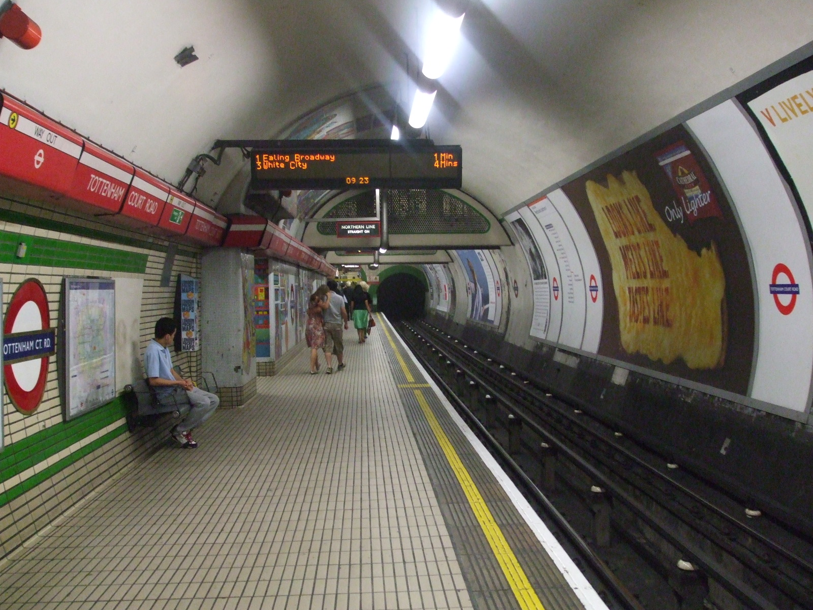 Tottenham Court Road tube station Central line westbound platform, looking east